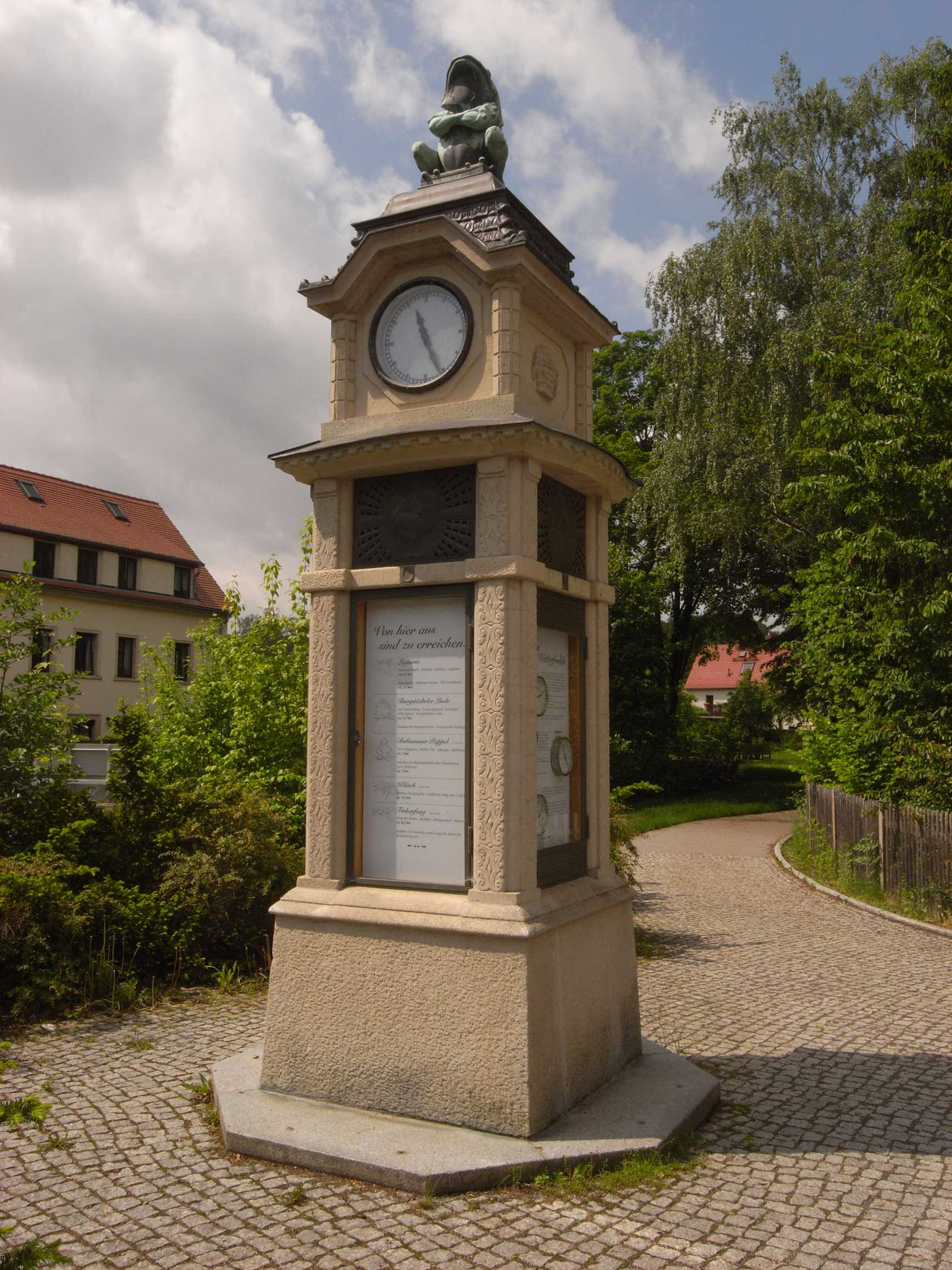 Dresden-Lockwitz, meteorological column "Frosch" (frog) on the banks of Lockwitz River (Sachsen, Deutschland)